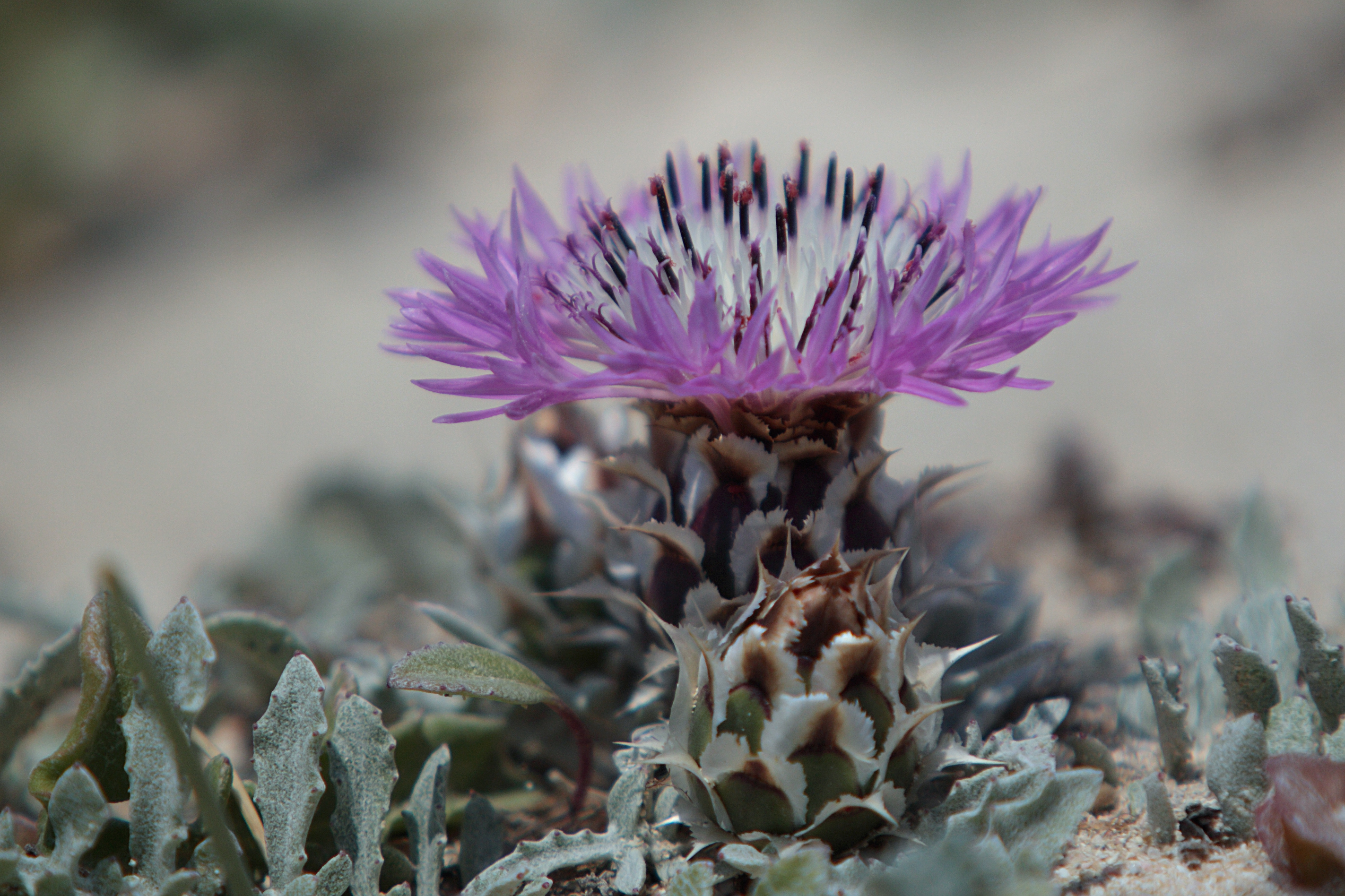 The Centaurea pumilio with the red mite Trombidium holosericeum - the beach of Elafonisos (Krete)